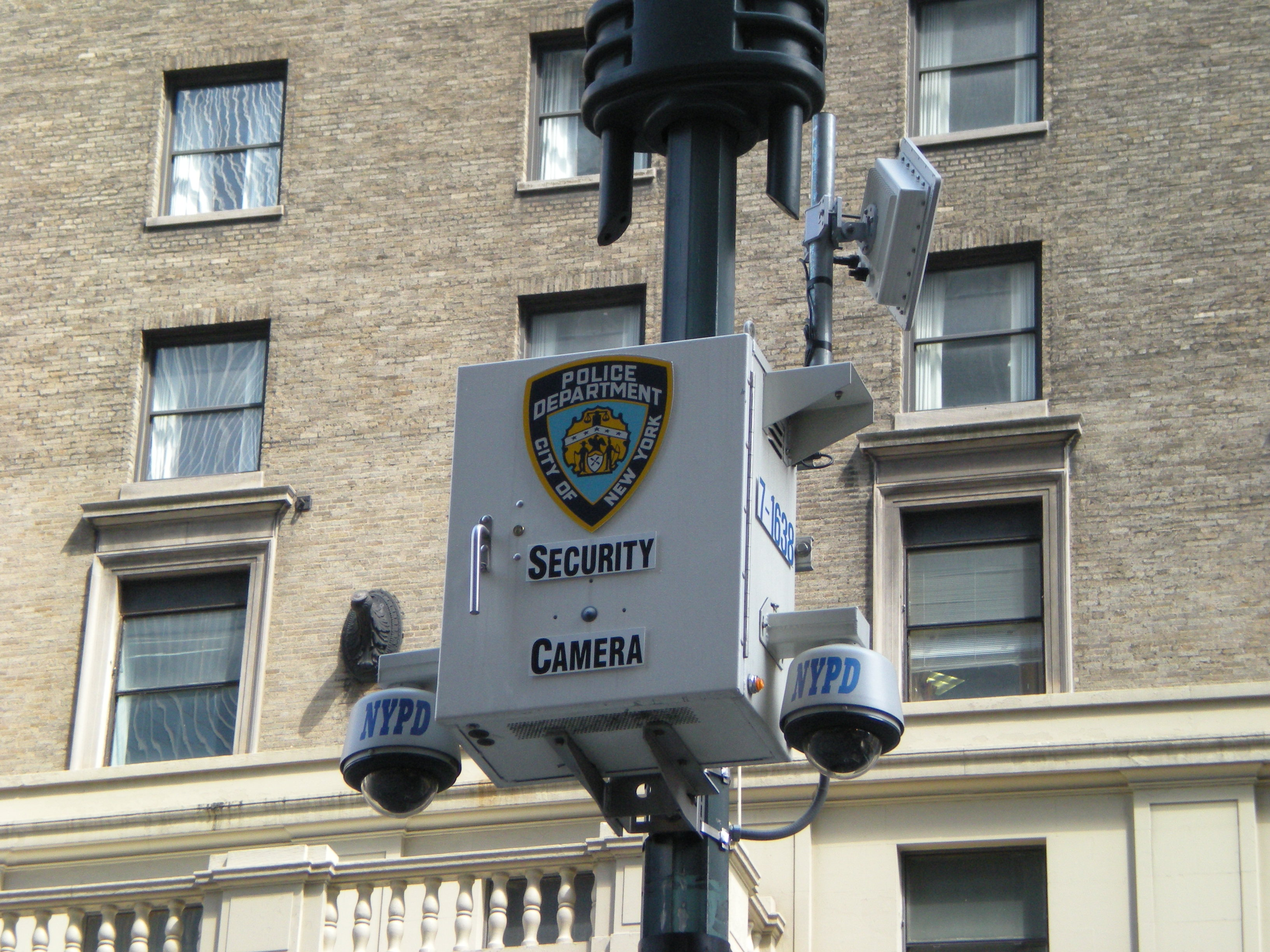 NYPD security camera outside Madison Square Garden.